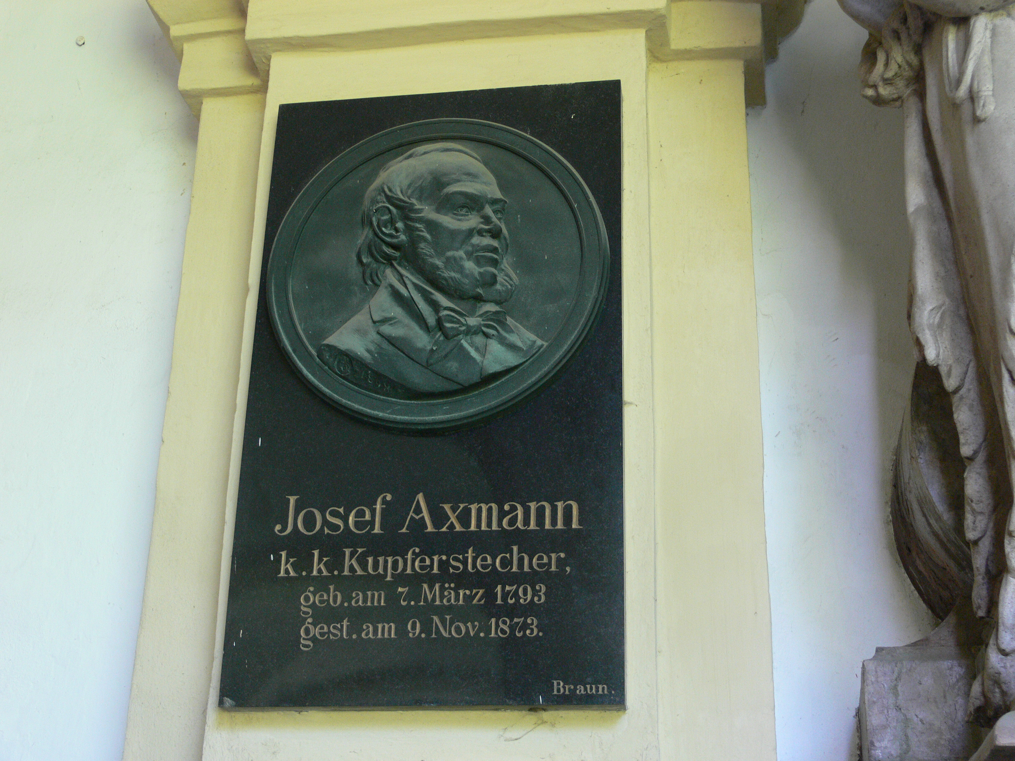 Sebastiansfriedhof Salzburg Epitaph Josef Axmann